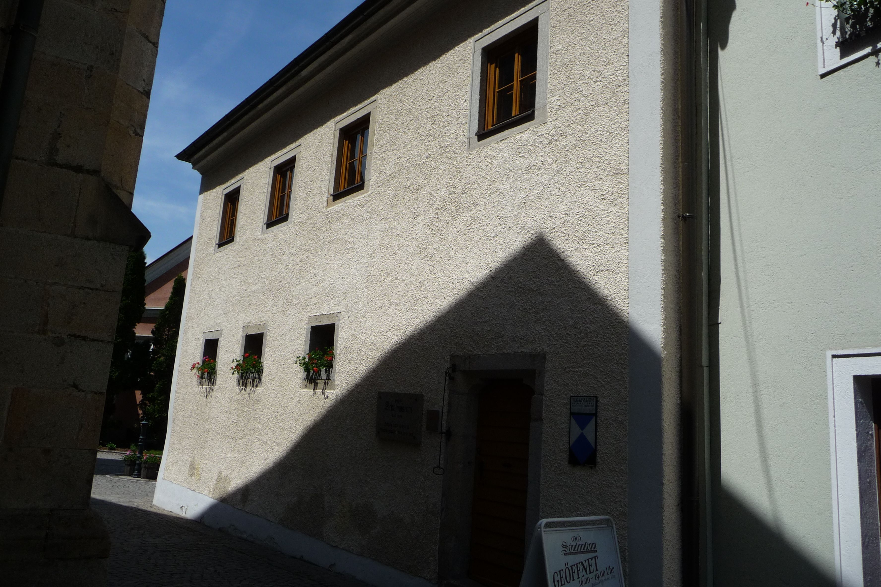 School Museum, one of the oldest buildings in Bad Leonfelen